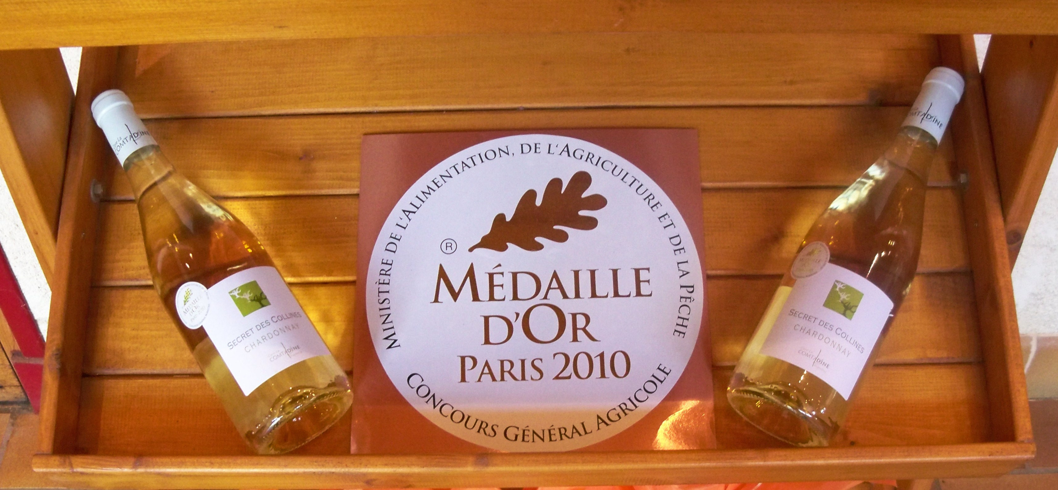 Gold medals awards of General Contest of Paris